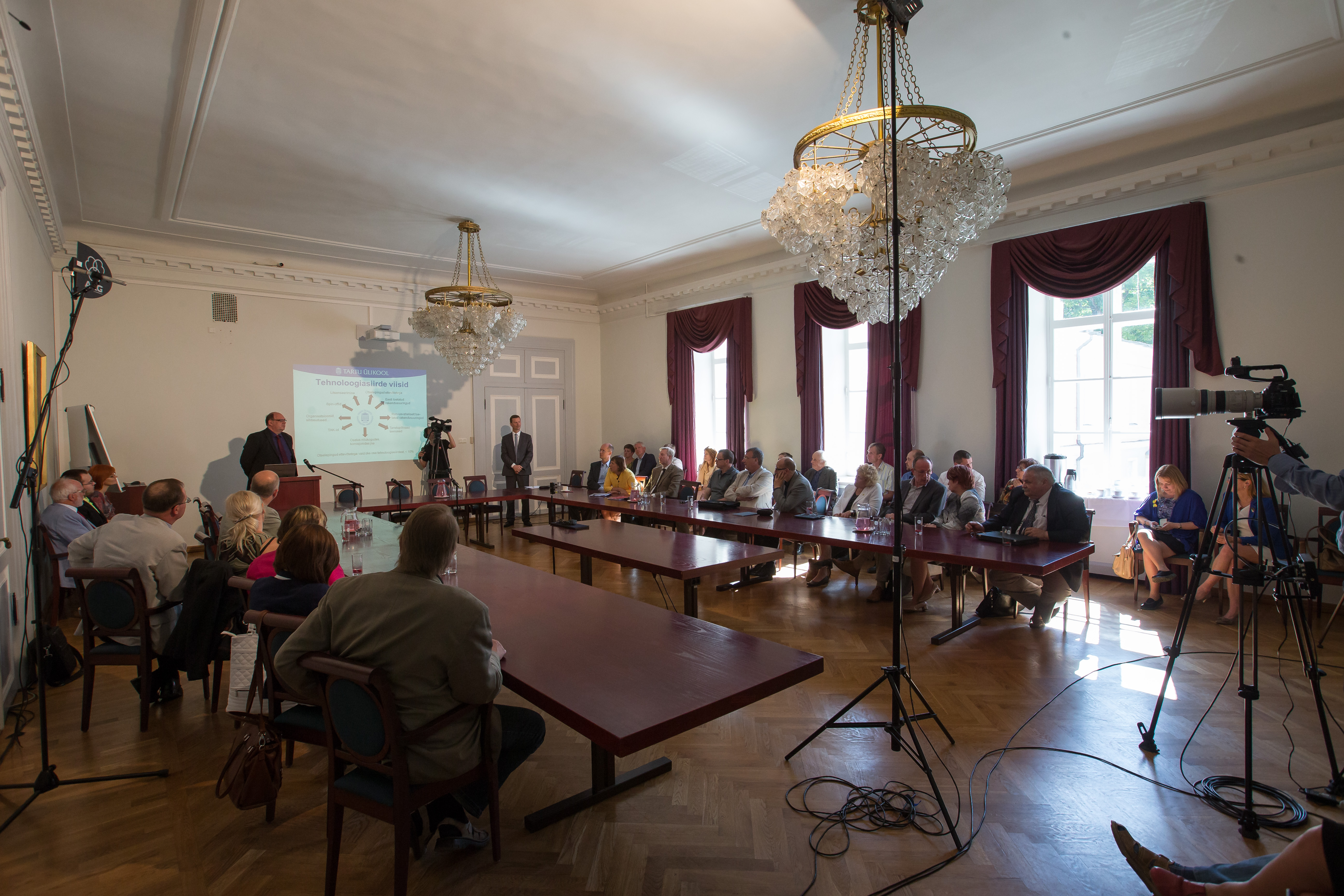 Council of the University of Tartu seminar "Risk management and developing of entrepreneurship inside the university".